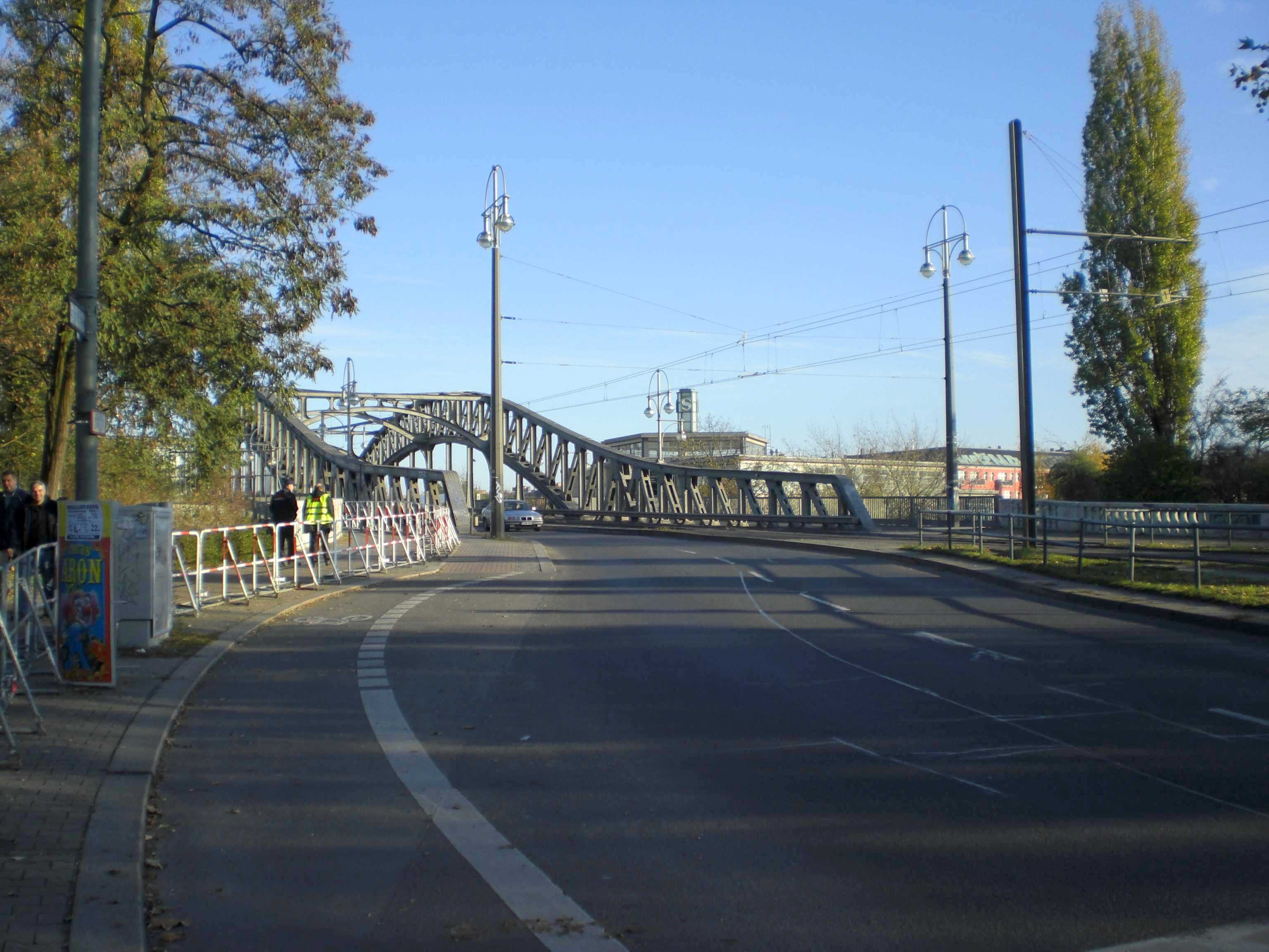 Berlin-Gesundbrunnen Bornholmer Straße Bösebrücke